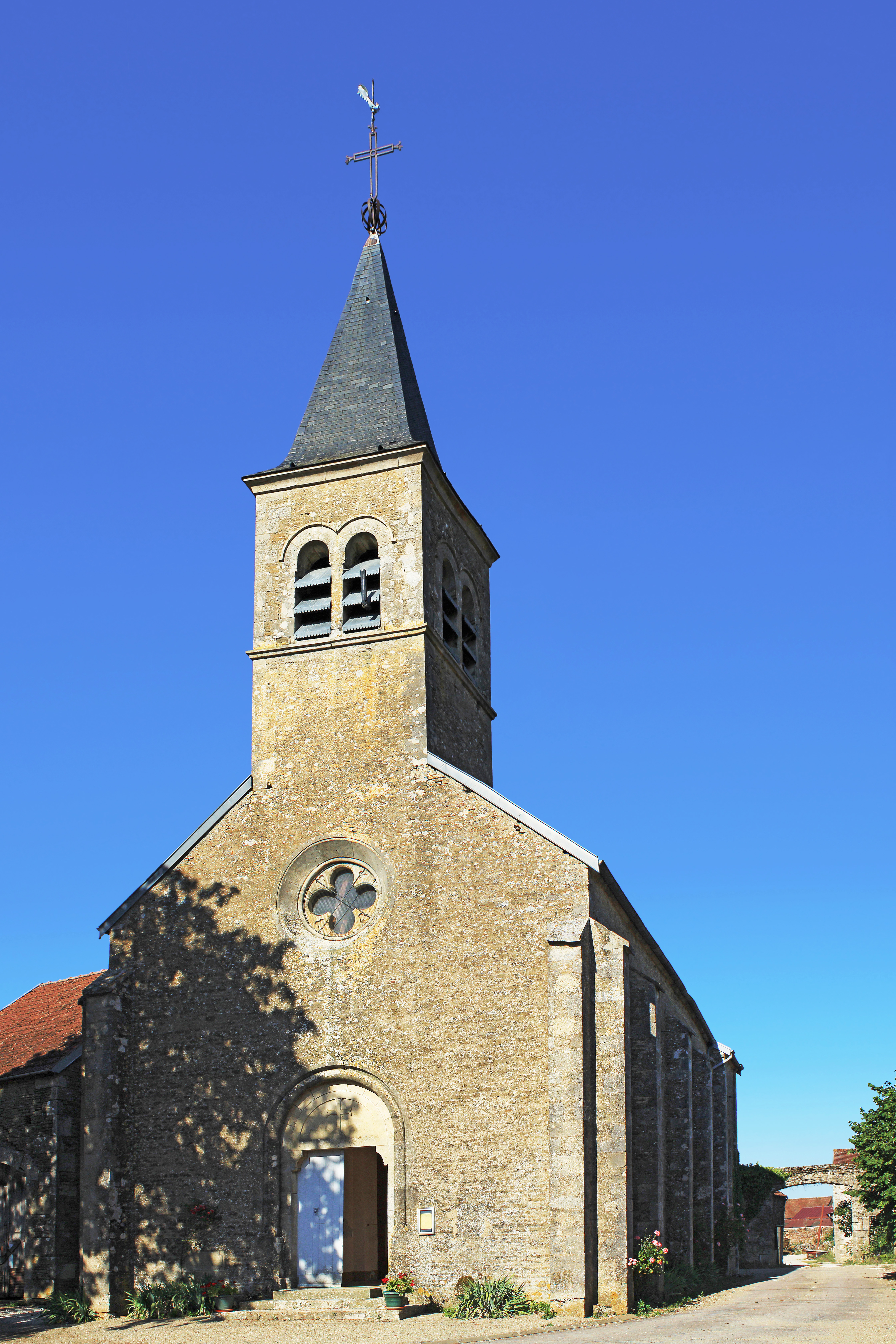 Church of Saint Denis in Chaume-lès-Baigneux